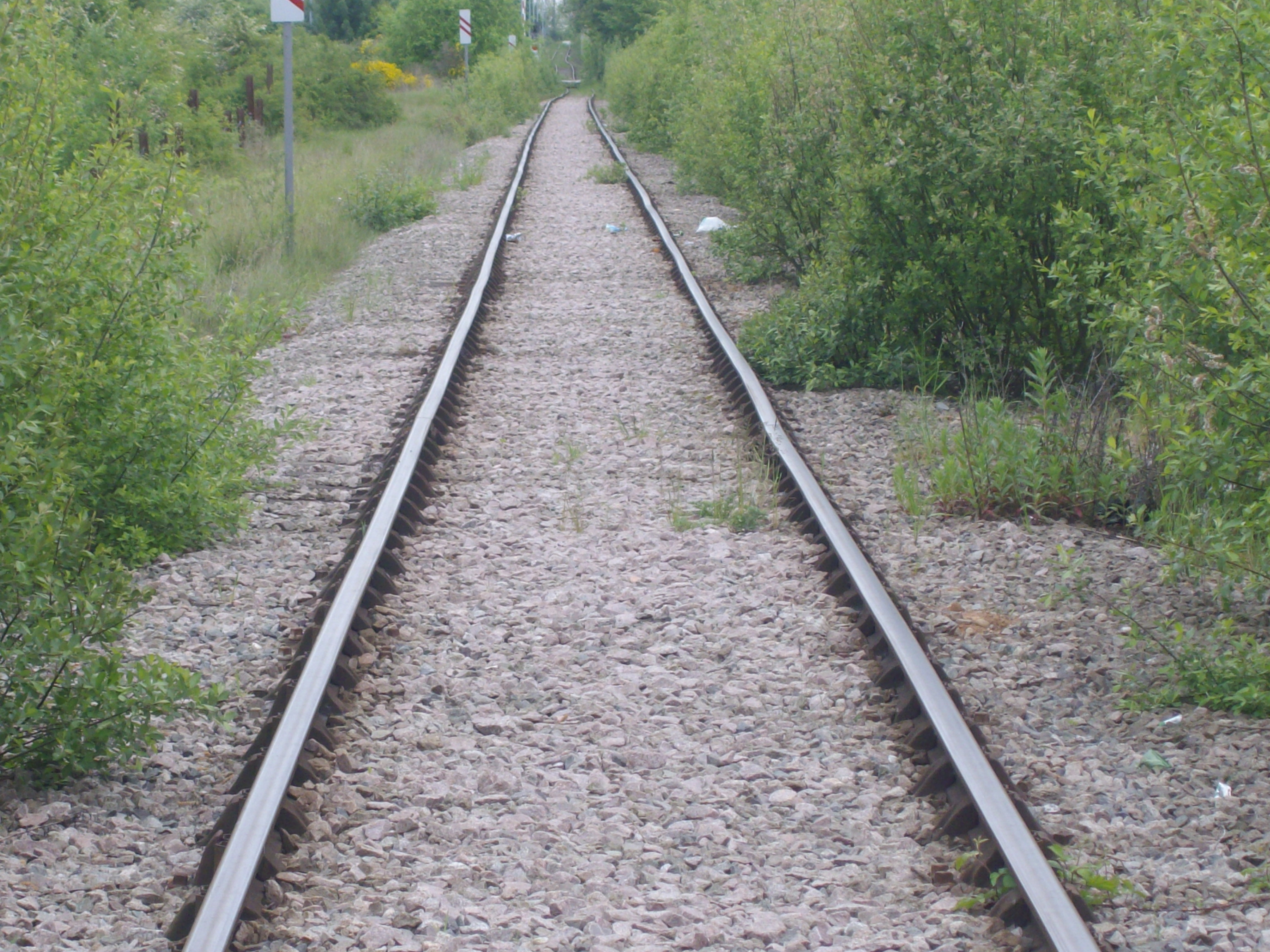 Railway line in Holbrooks.